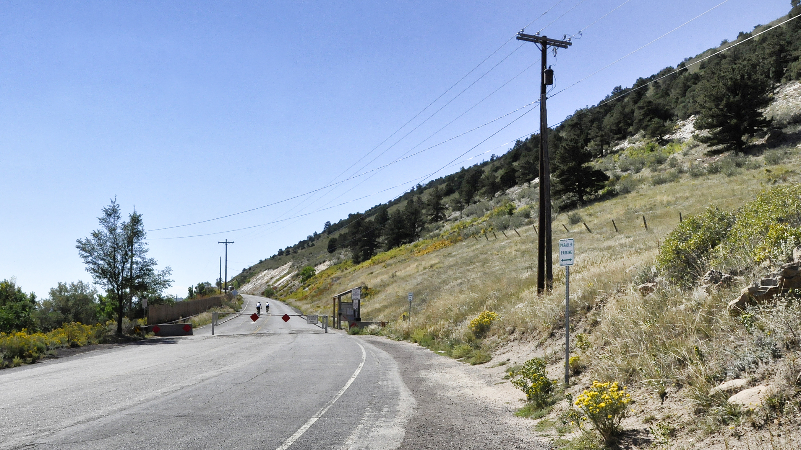 Eastern side of Dinosaur Ridge